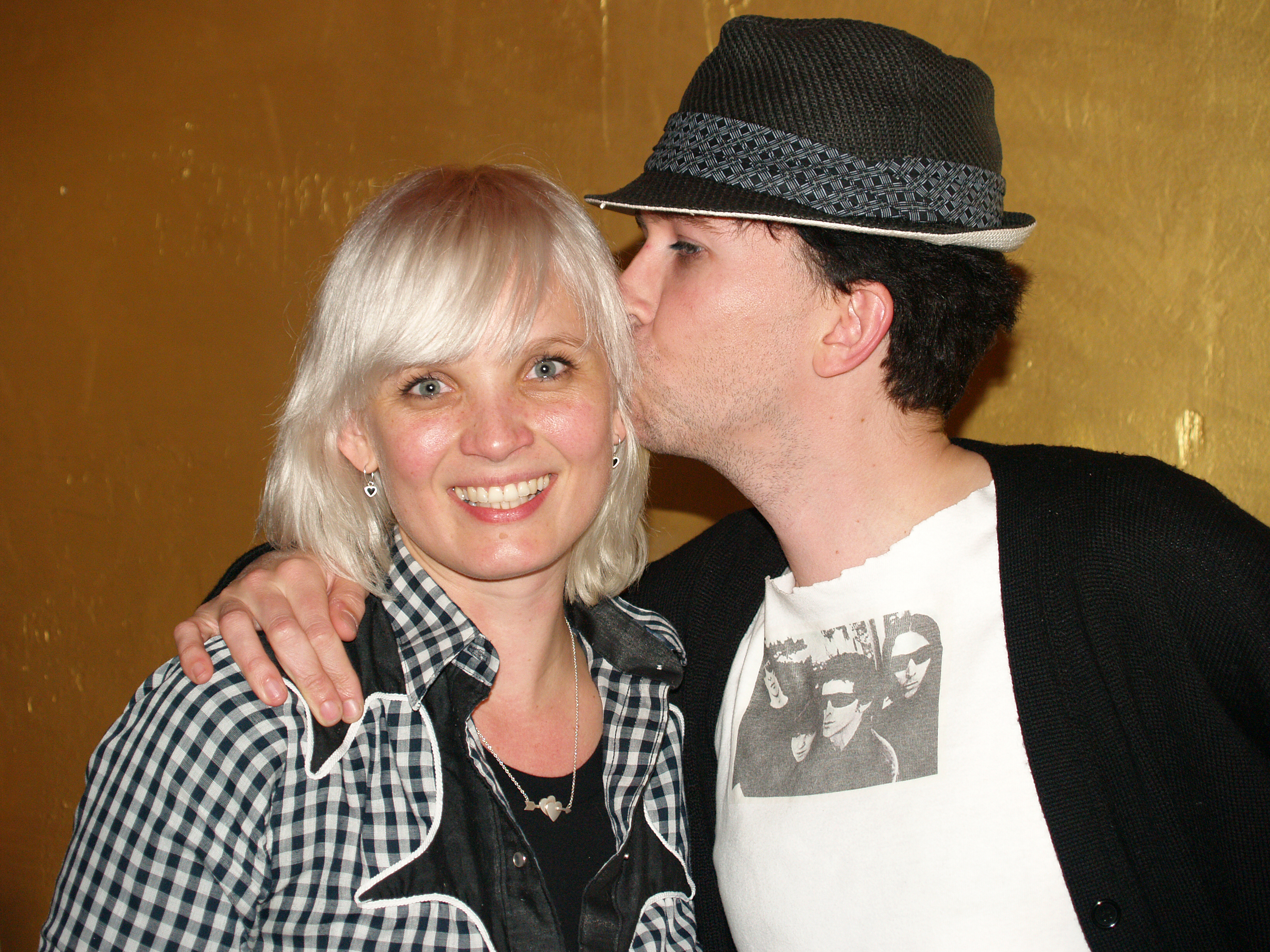 Sharin Foo and Sune Rose Wagner